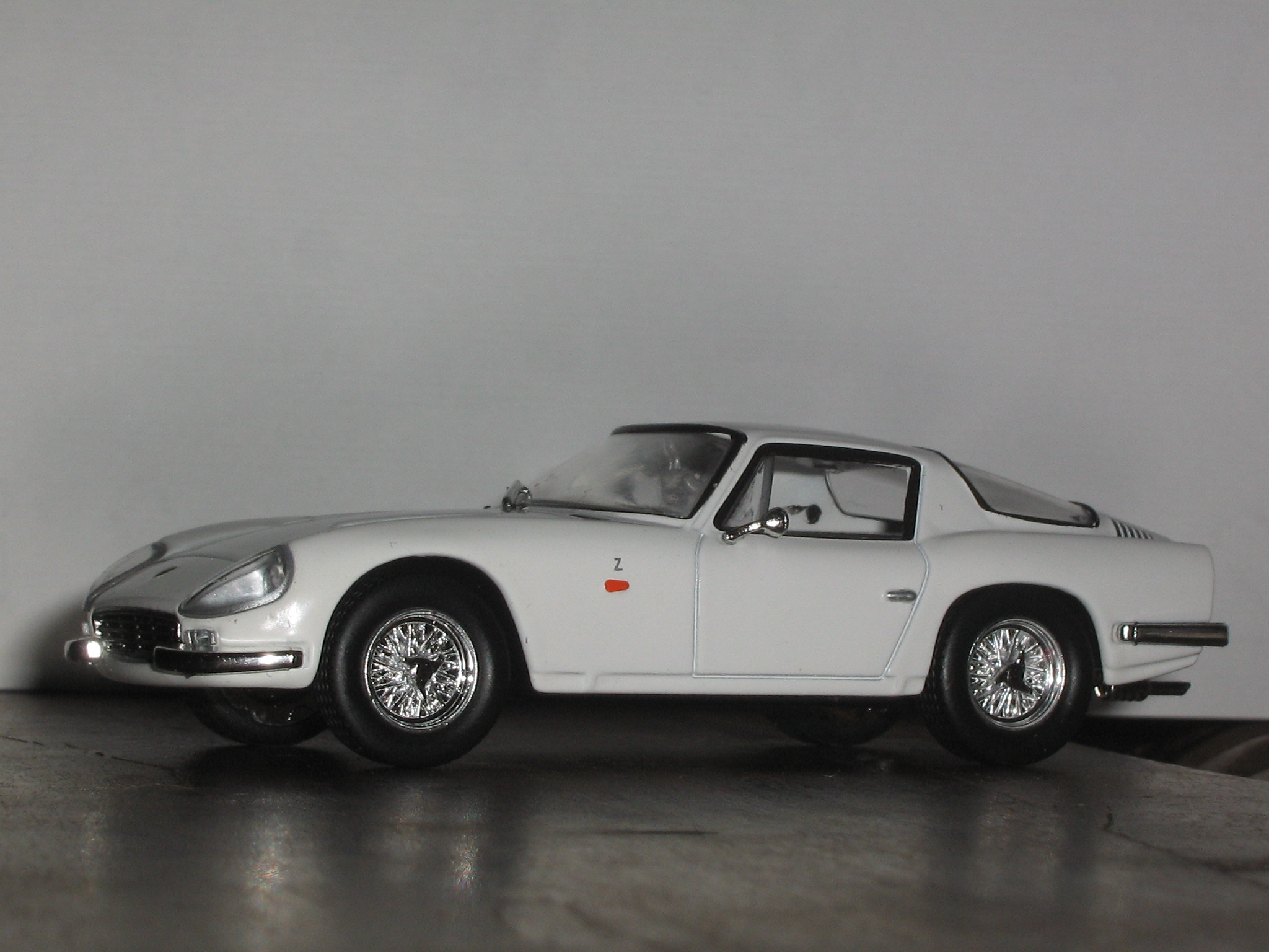 1/43 Fabbri Editore model of Lamborghini 3500 GTZ. Original photo.